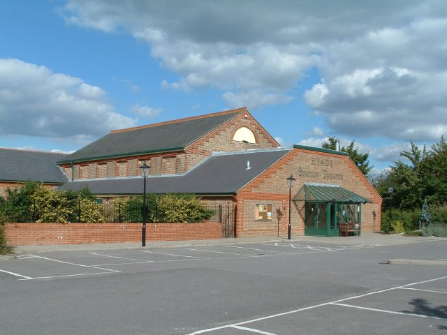 Station Theatre, Hayling Island Station Theatre, the home of the Hayling Island Amateur Dramatic Society, was converted from a goods-shed at the former Hayling Island Railway Station. The station was the terminus of the Havant to Hayling Island Branch Line also called the Hayling Billy line.